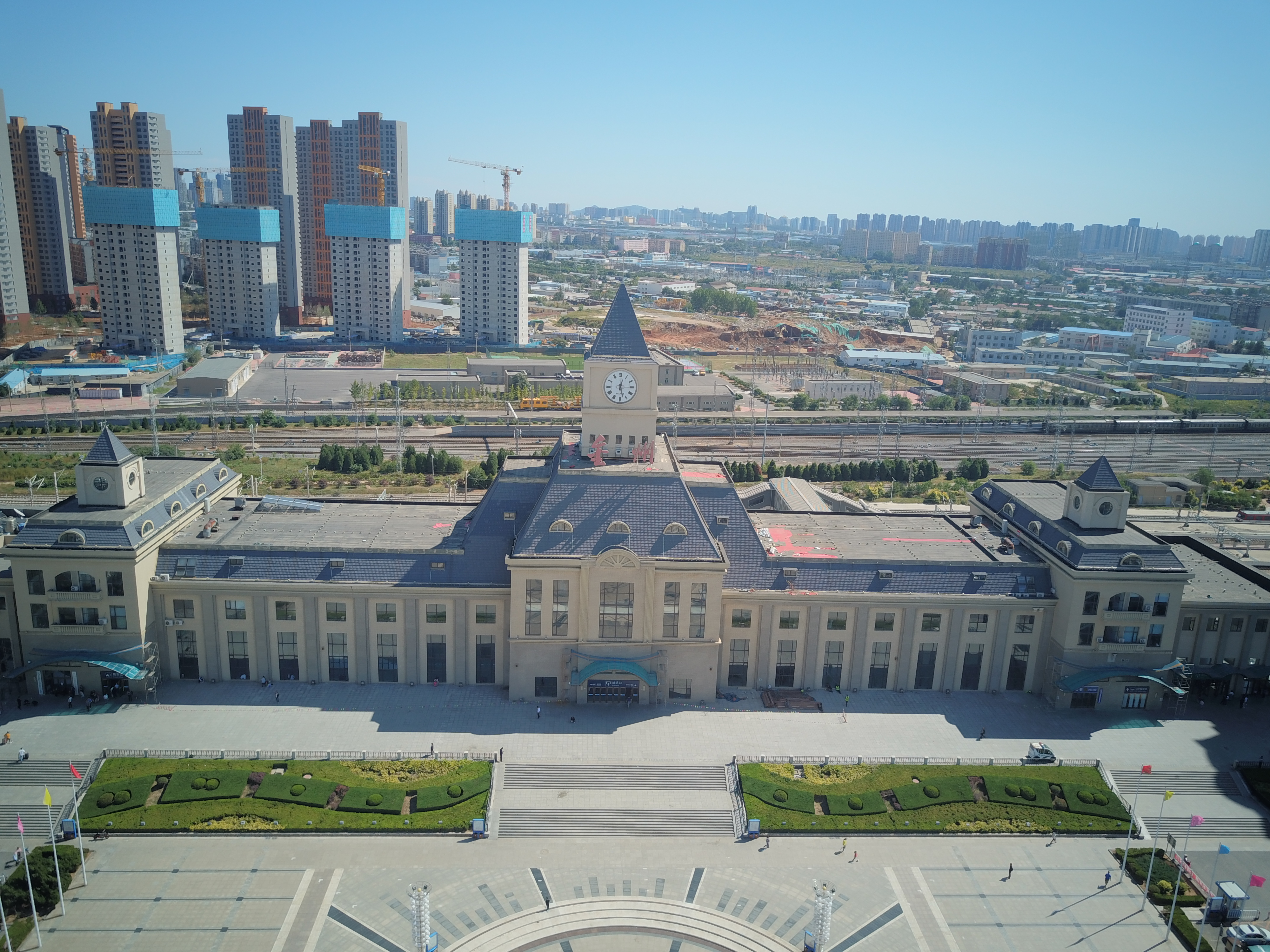 Jinzhou Railway Station (Dalian)